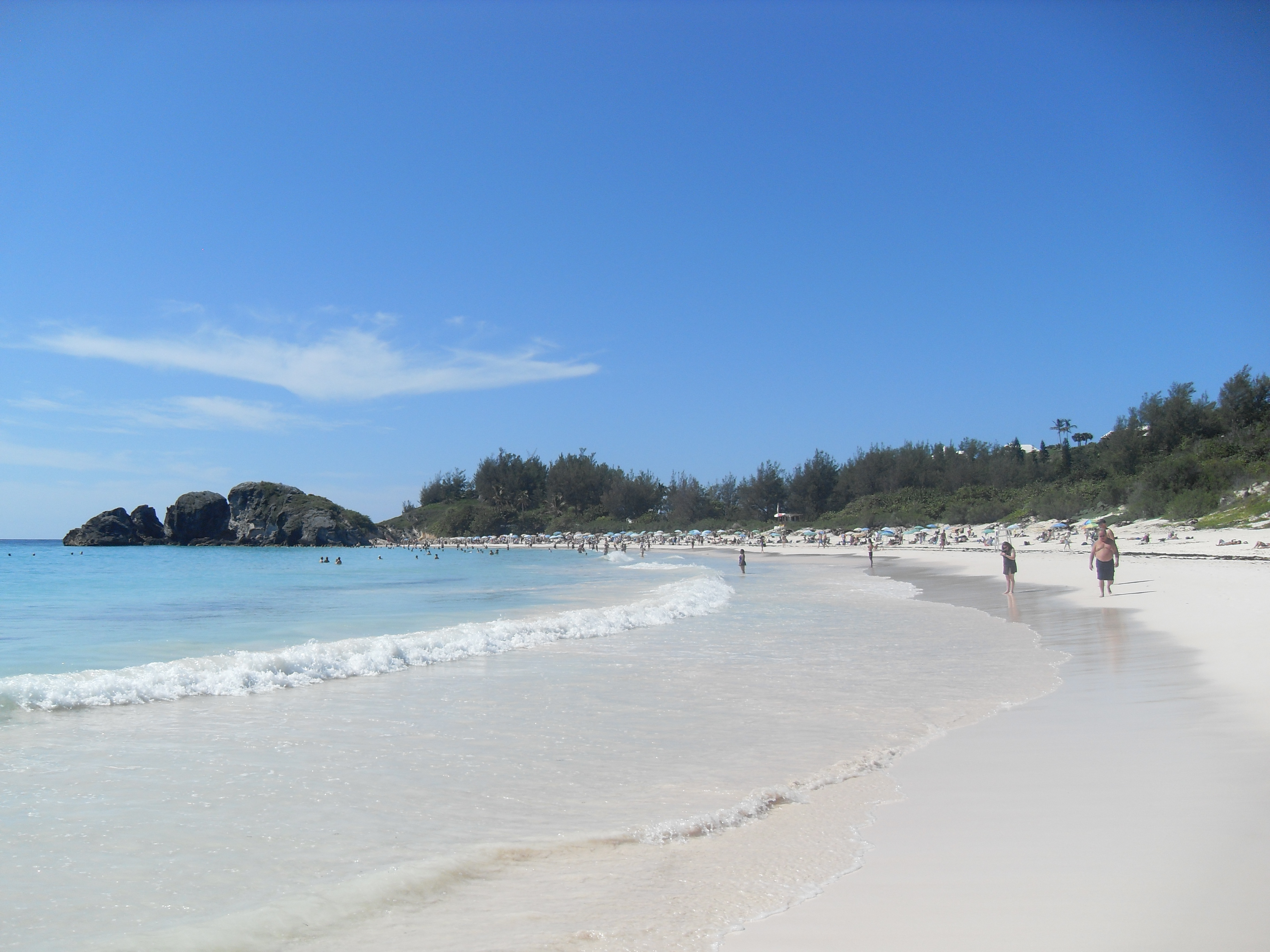 Horseshoe Bay, in Southampton Parish, Bermuda. The bay contains a public beach, and lies within Warwick Camp. It is one of two beaches of the same name in Bermuda, with the other located at Tucker's Island, since the 1940s part of a peninsula that housed the former US Naval Operating Base, and is now called Morgan's Point.